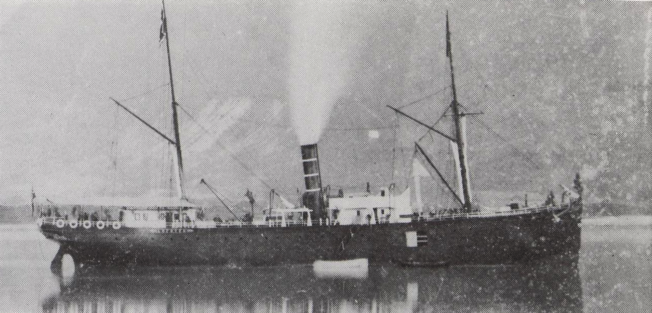 Norwegian passenger ship DS Lofoten, built 1873. In 1894 renamed Vesta.